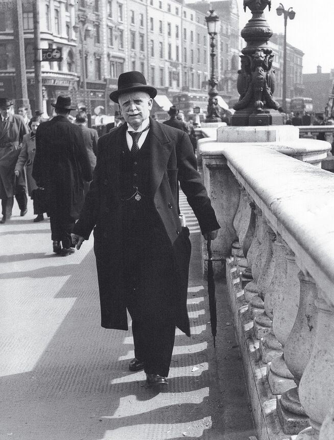 Photograph of Alfred Byrne on O'Connell Bridge in Dublin. Photograph scanned from the Alfie Byrne Collection courtesy of the Little Museum of Dublin